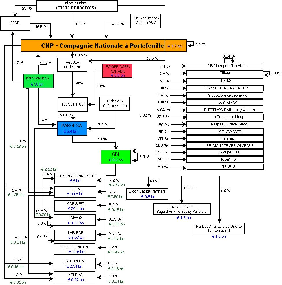 The shareholdings are compiled from published company data as of May 2009 and may change anytime.